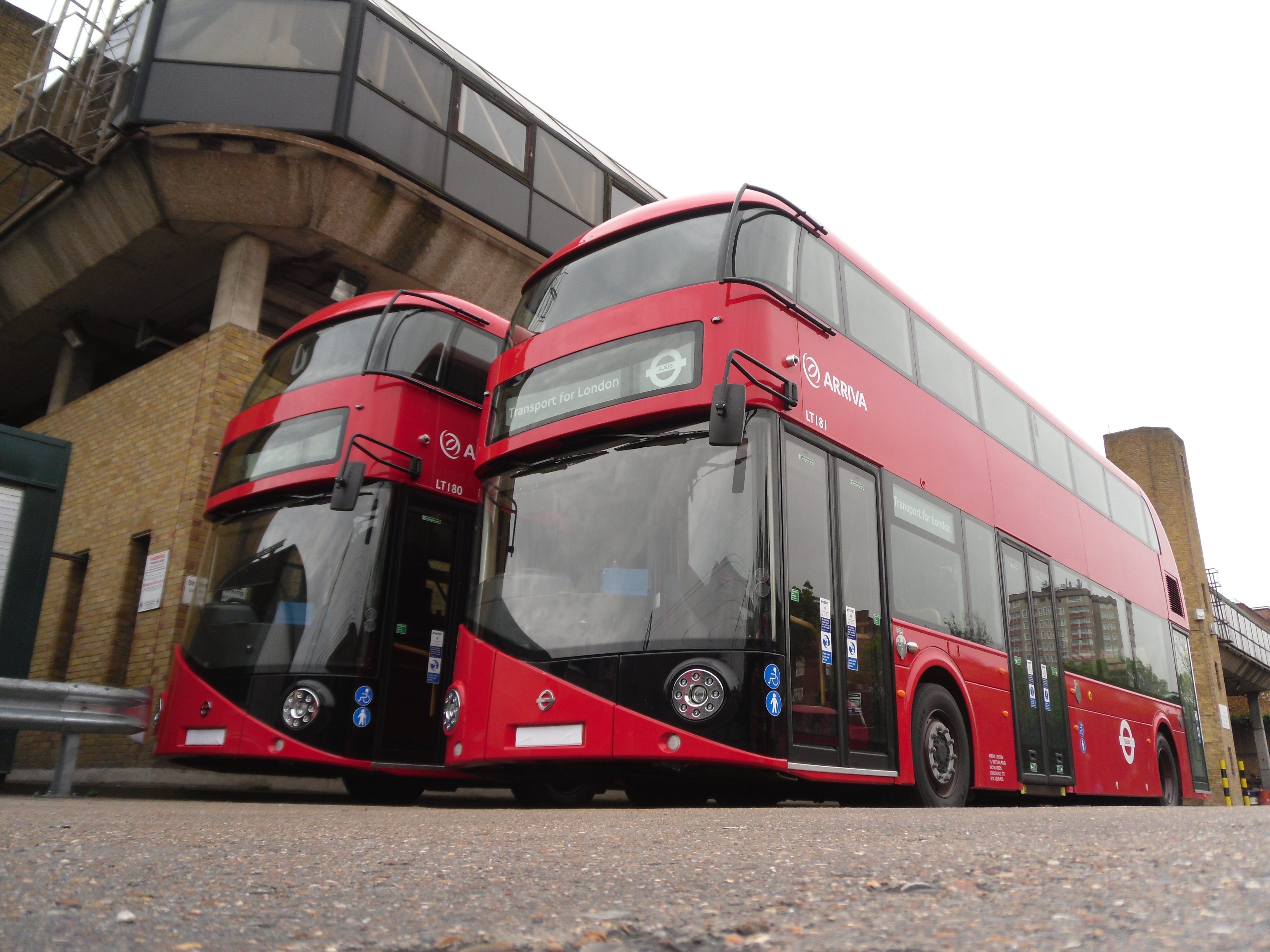 Arriva London LT180/181 (LTZ1180/LTZ1181), Ash Grove Garage